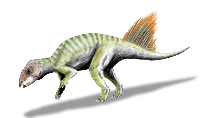 Psittacosaurus (formerly Hongshanosaurus) houi, a ceratopsian from the Early Cretaceous of China, pencil drawing, digital coloring